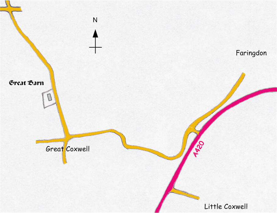 A sketch map of Great Coxwell, Oxfordshire, England showing the location of the Great Barn